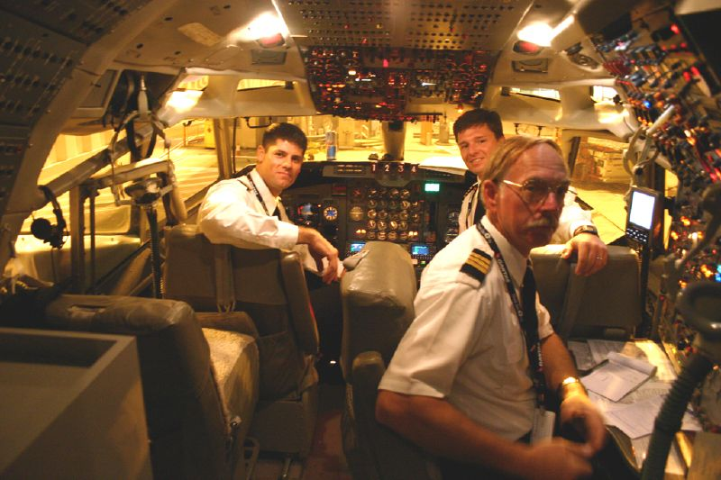 Inside the cockpit of John Travolta's lovely old 707 which was the former Qantas 707 VH-EBM. The crew seen here preparing the aircraft for its departure to Cairns. Photo taken at 8.05pm on the 20th November 2005, Sydney Airport.